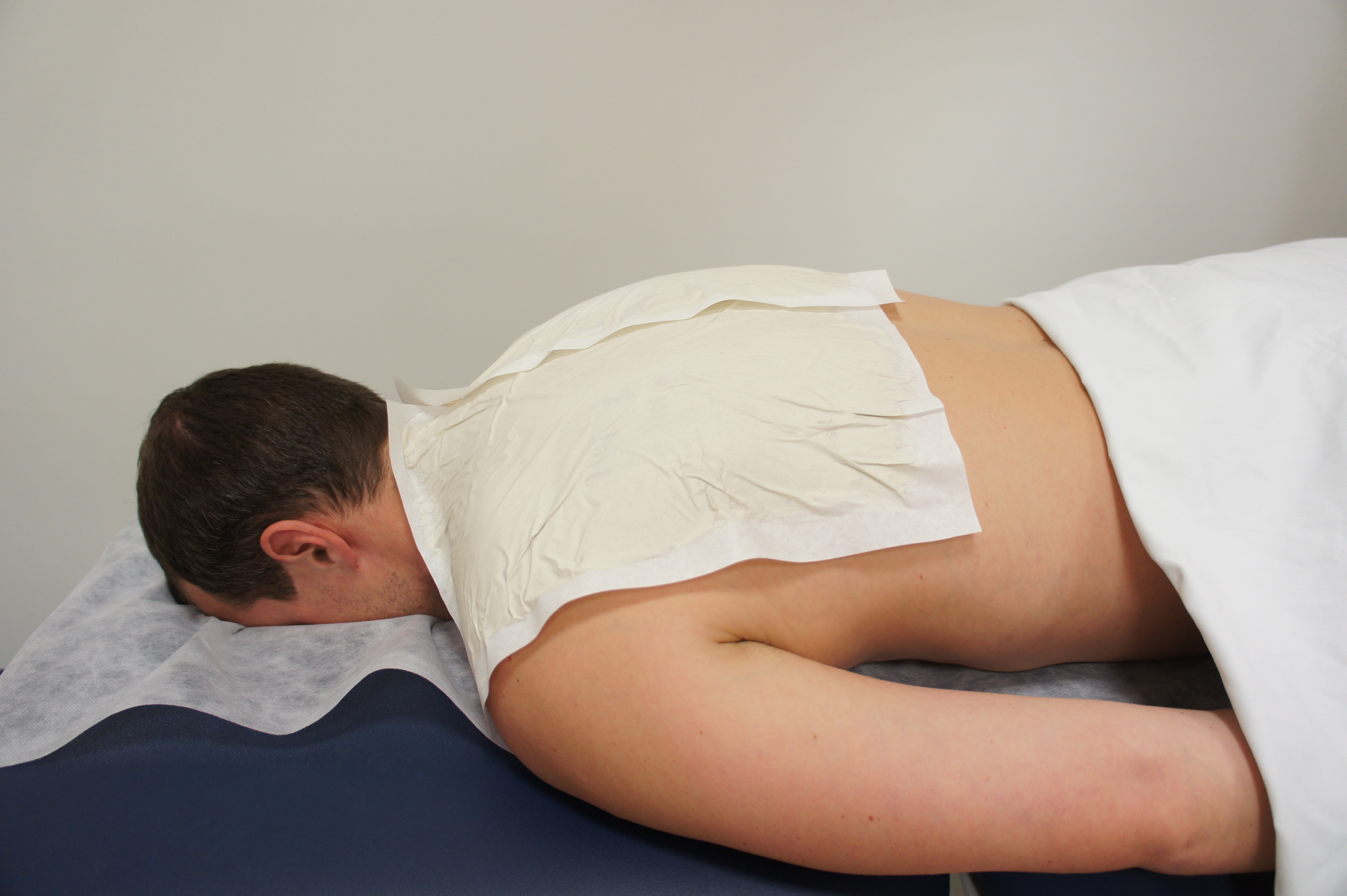 Munari application over pectoral girdle